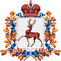 Nizhniy Novgorod Oblast, coat of arms